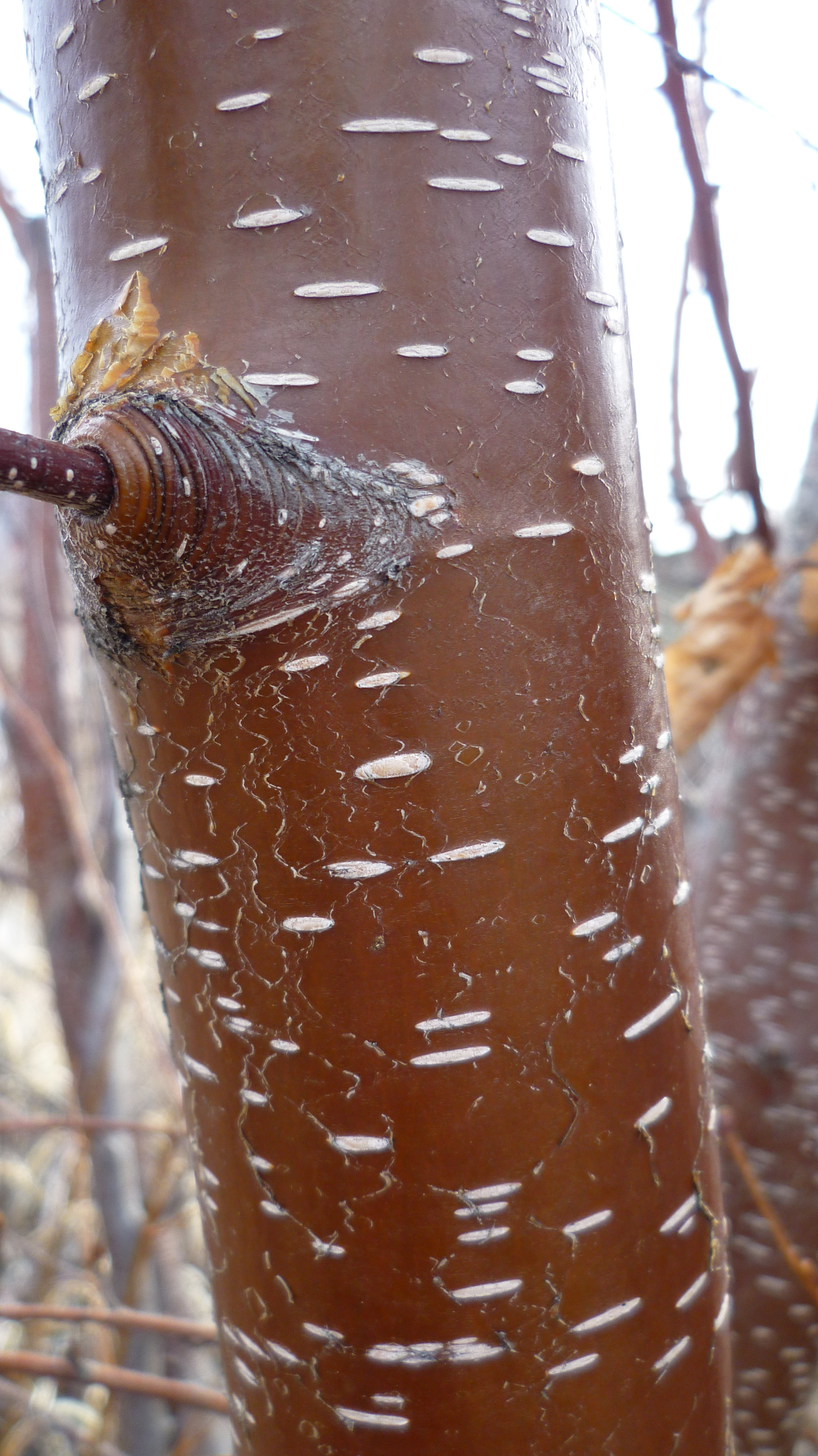 Betula occidentalis trunk (bark) along the Columbia River, Colockum Wildlife Area, Chelan County Washington